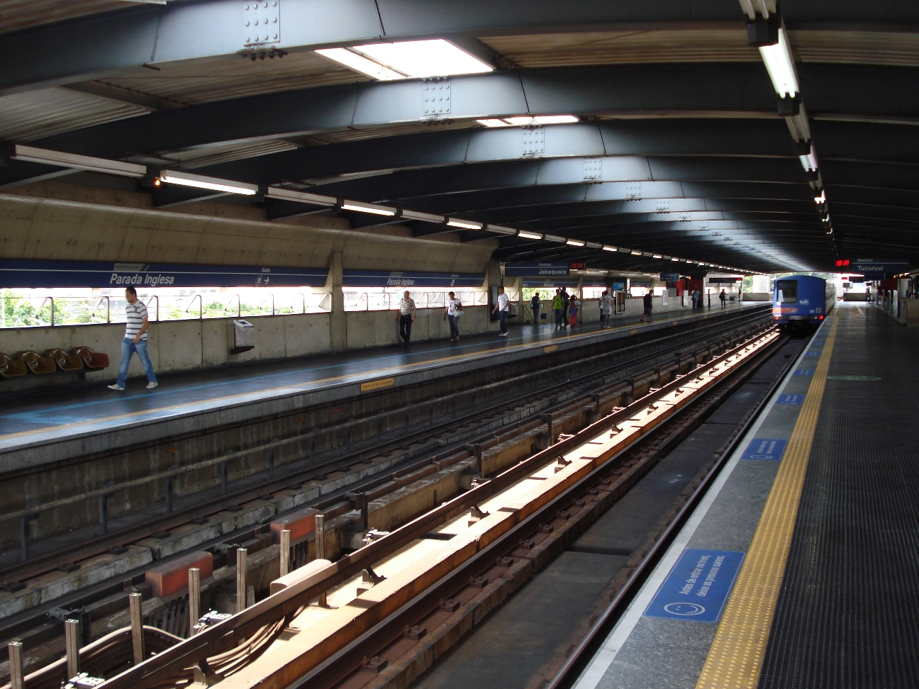 Parada Inglesa Metro Station. São Paulo, SP, Brazil.